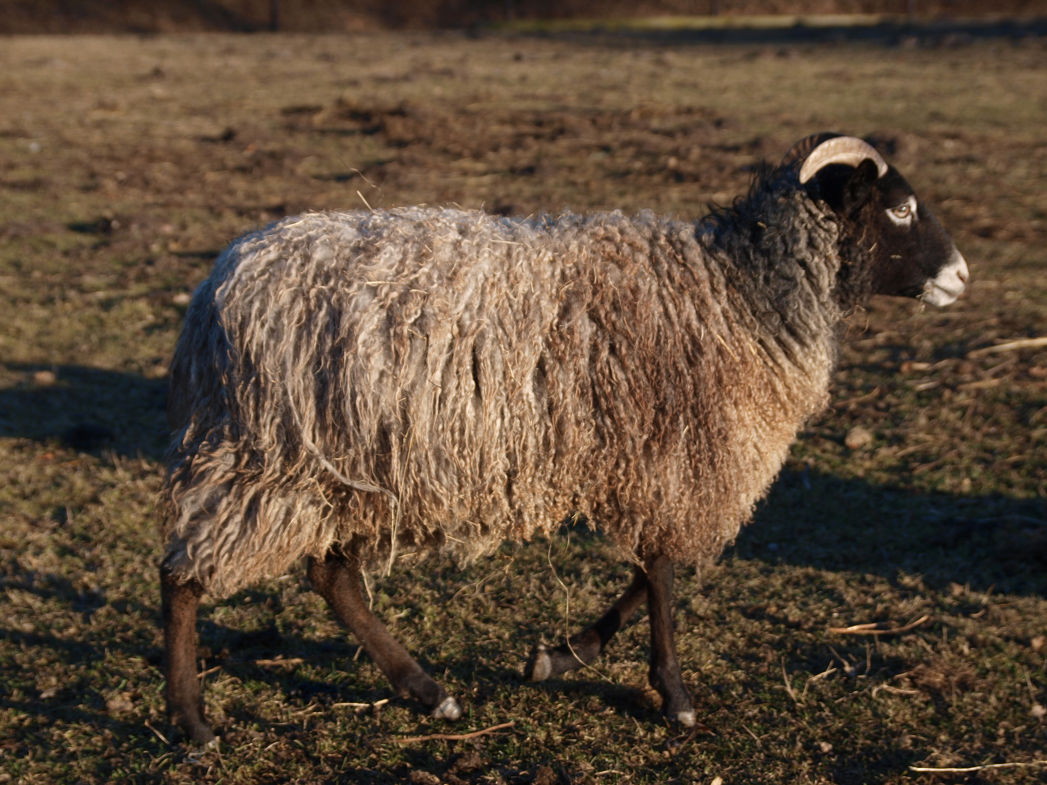 One year old female Gute sheep